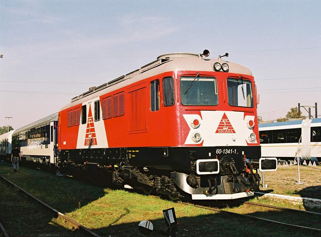 60-1341-1 of SIGMA; TRAKO trade fair, Gdańsk, Poland